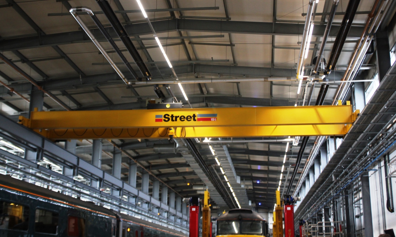 The maintenance shed at Long Rock near Penzance, which is the base fro Great Western Railway's 'Night Riviera' train, is equipped with this 15 tonne overhead crane for lifting components in and out of locomotives.